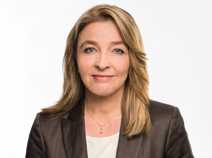 Barbara Schmid-Federer, Zürcher CVP-Nationalrätin (2013).